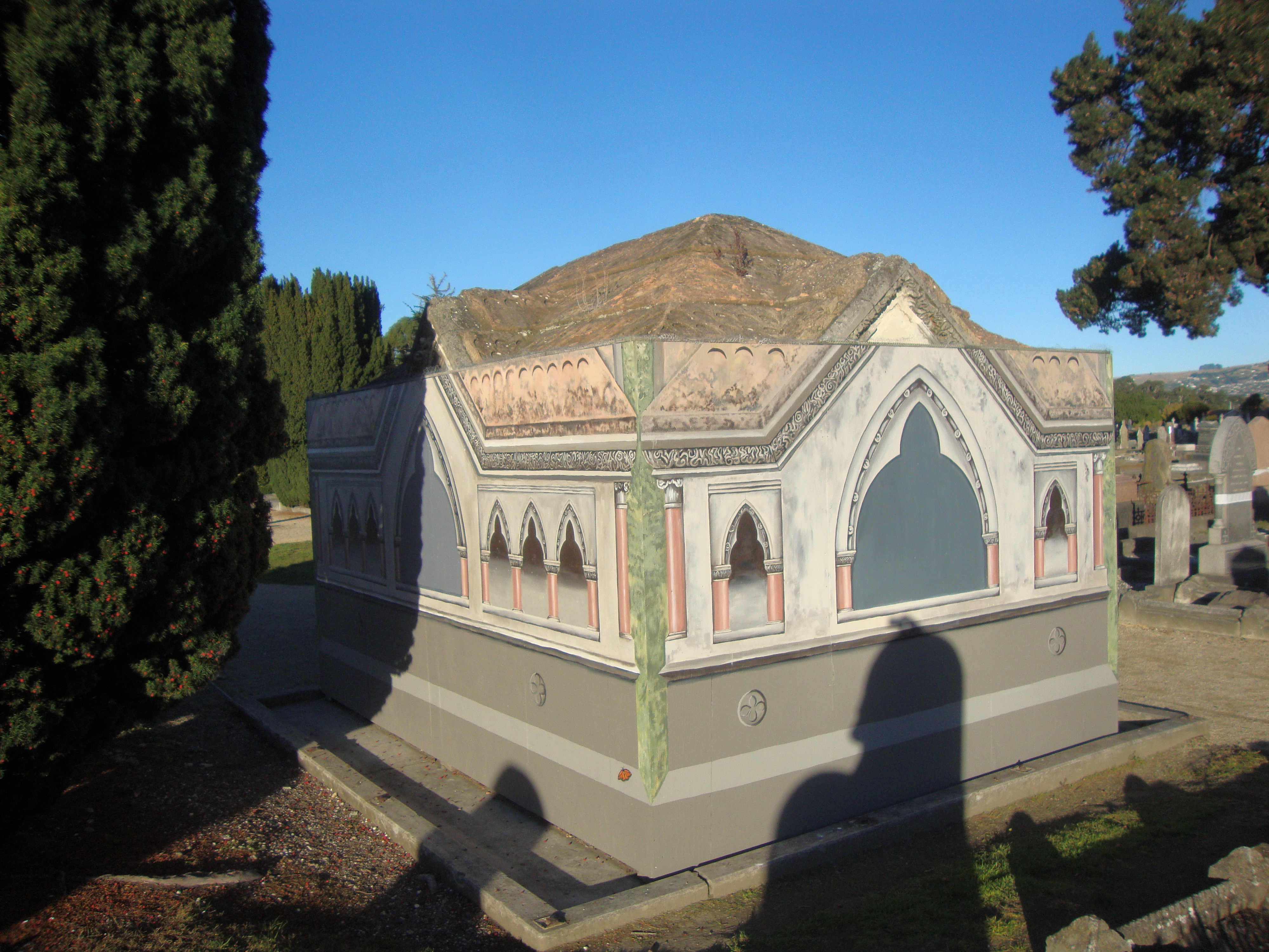 The Peacock vault with a mural, applied in 2012.